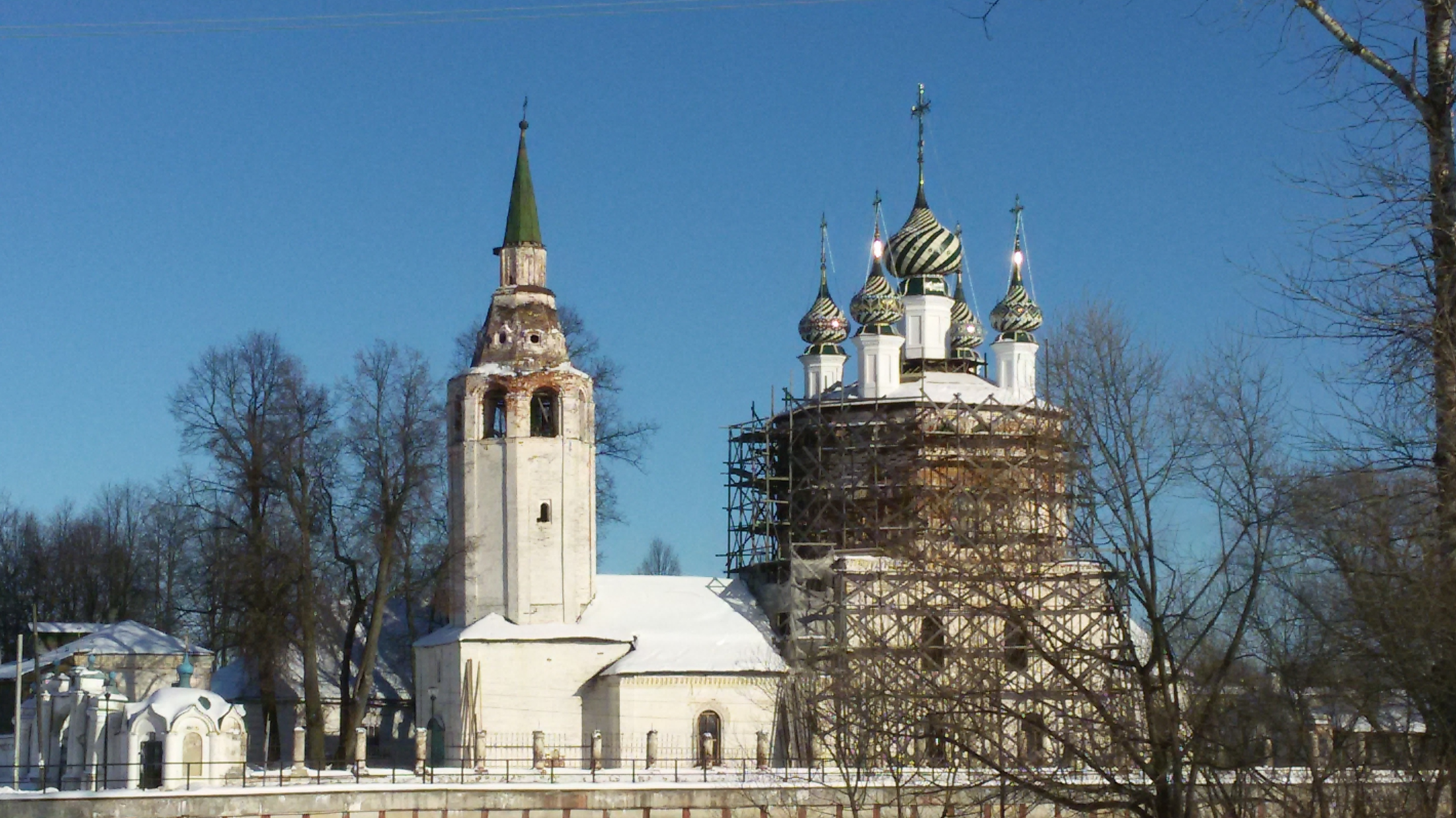 Holy Trinity Church at Kholui. 1748--1750